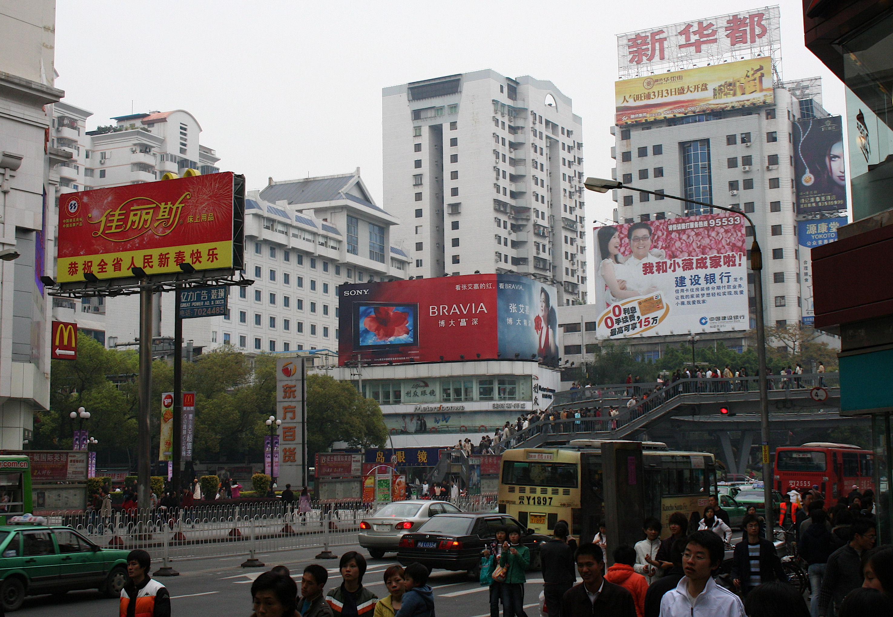 Fuzhou, China